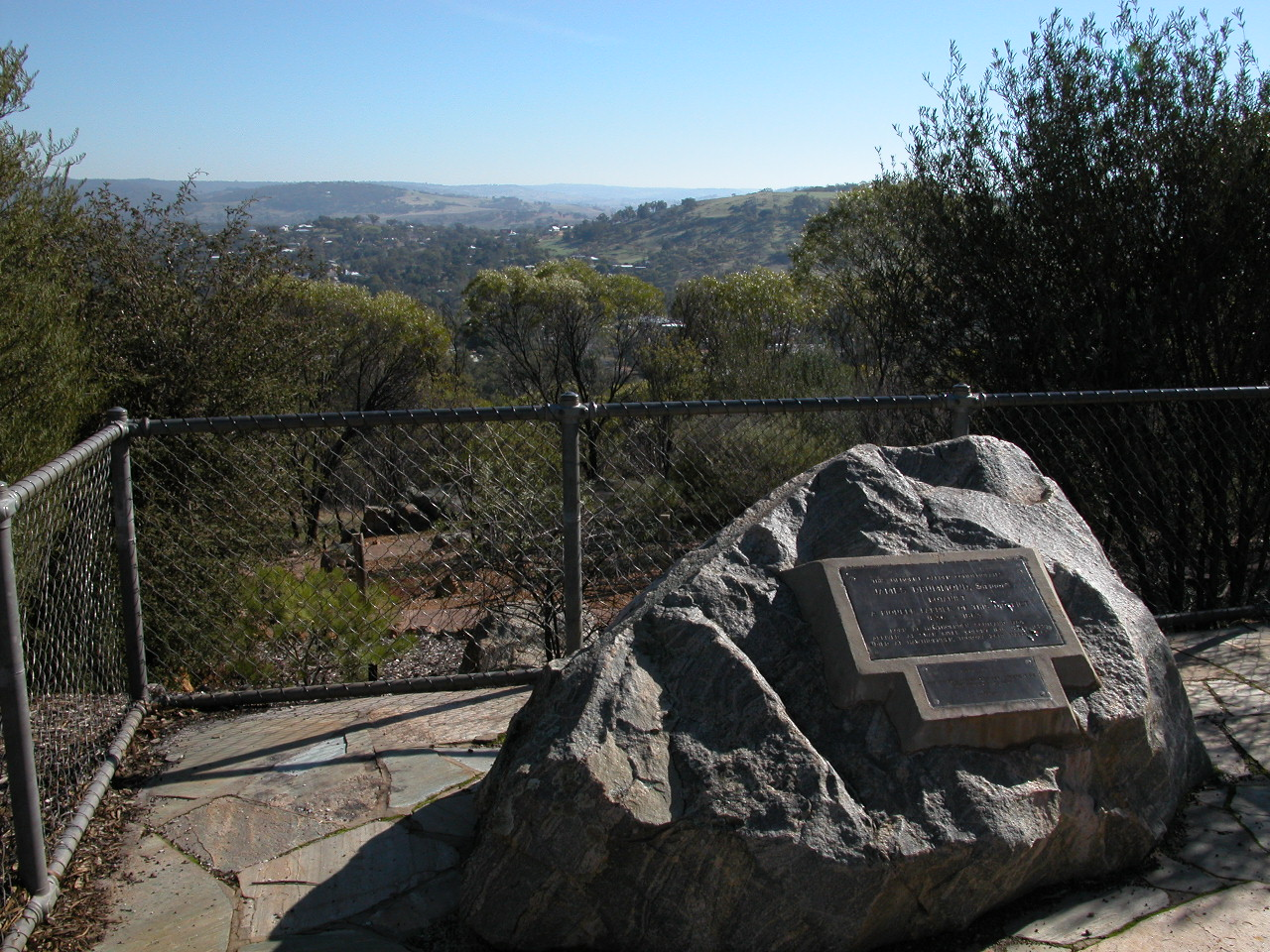 Memorial to James Drummond (Snr), botanist and pioneer farmer, in Pelham Reserve, Toodyay